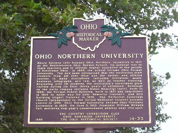 Historical marker in from of Ohio Northern University